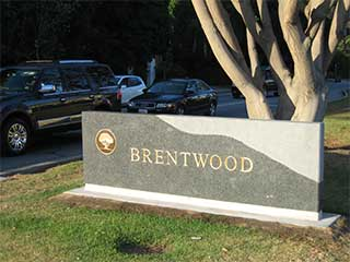 When entering Brentwood from the East or West along San Vicente Blvd. you see a marble stone like this one.